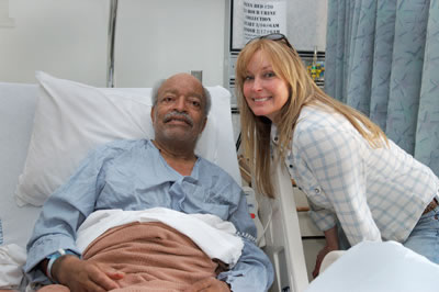 Bo Derek, American film actress and model visiting a VA hospital in Los Angeles, California